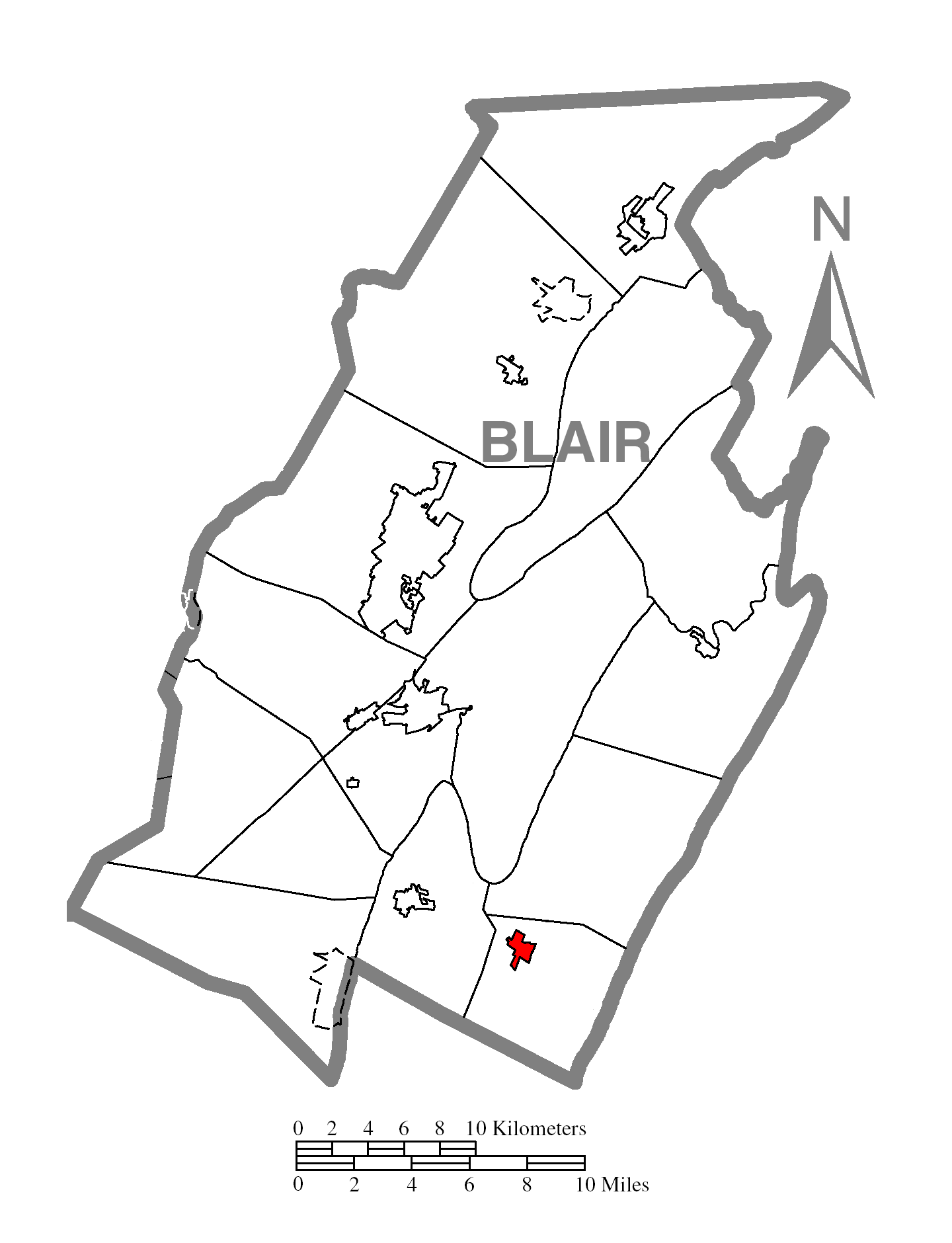 A map of Blair County showing Martinsburg, Pennsylvania (alternate) highlighted on the map.